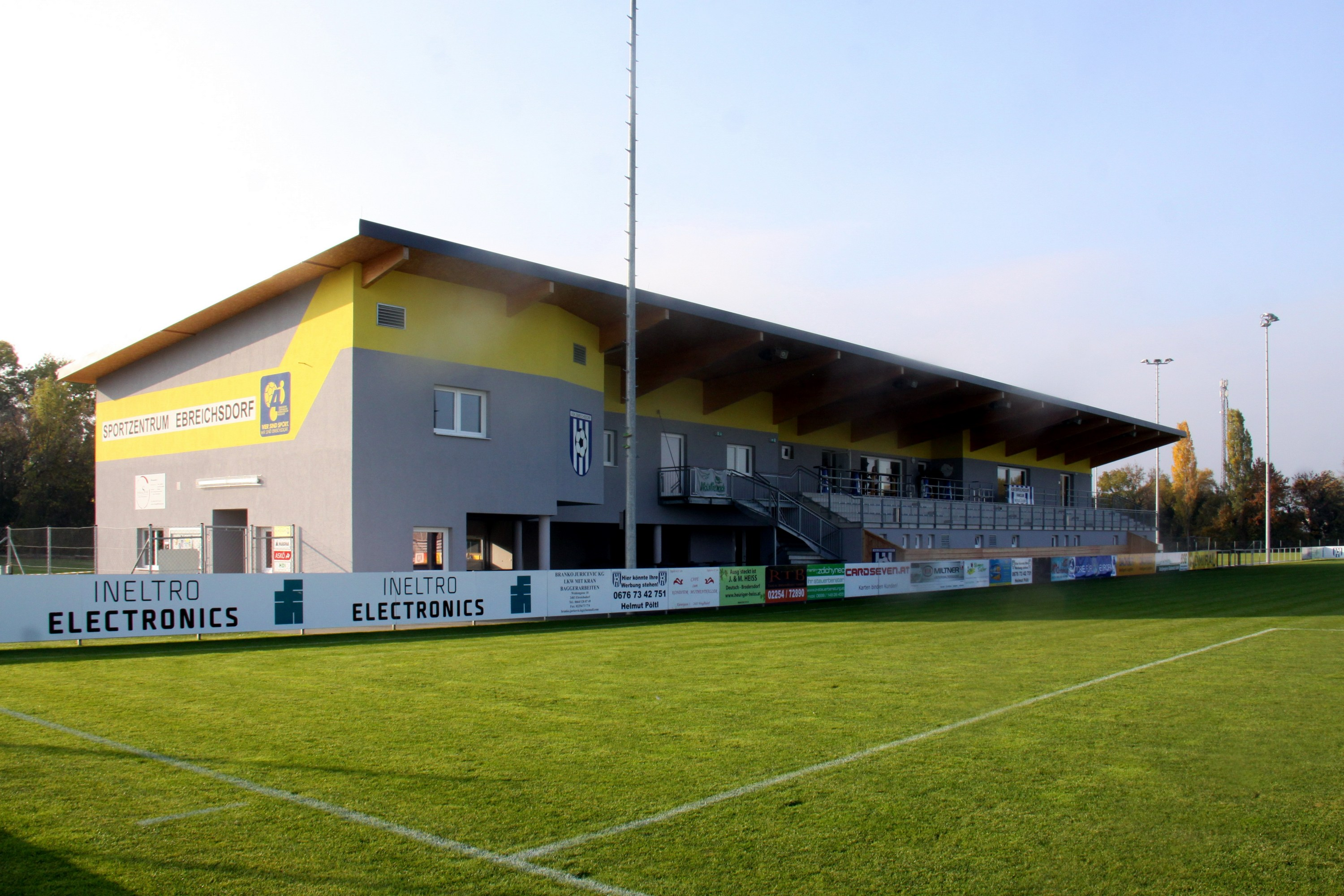 Sportscenter in Ebreichsdorf, Lower Austria